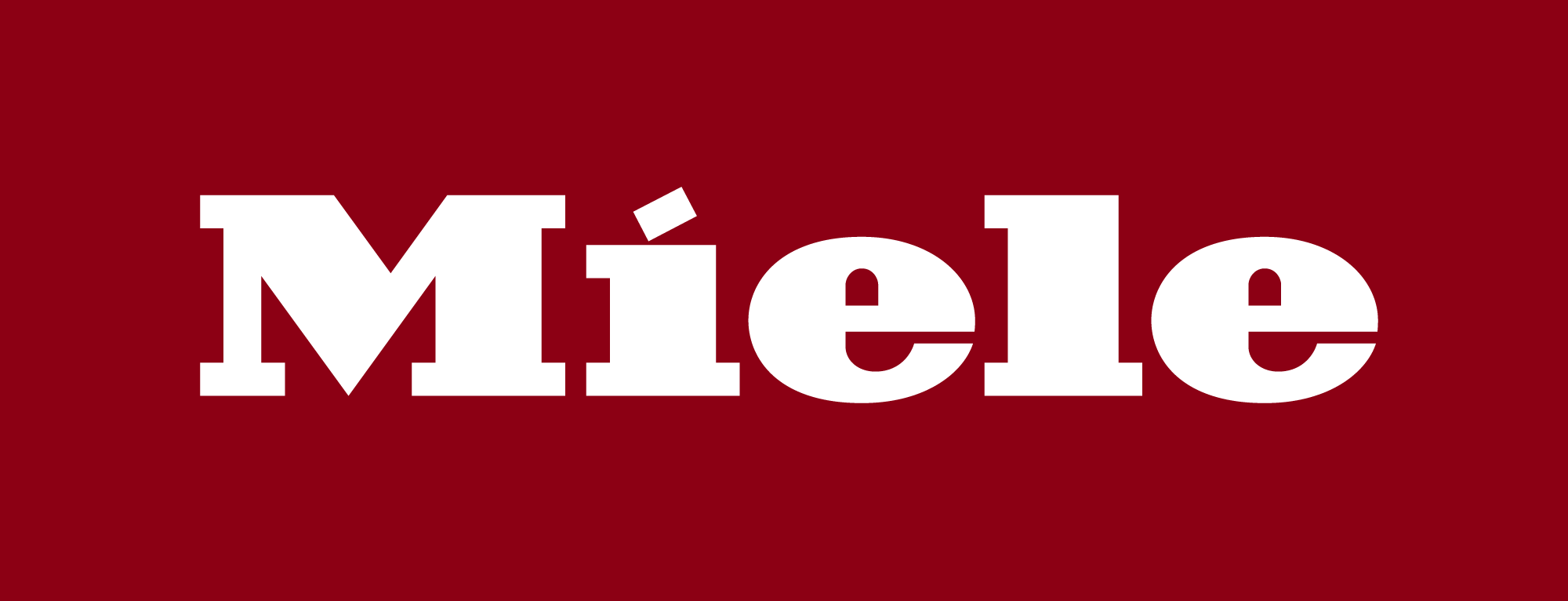 Miele Appliances New Logo 2018